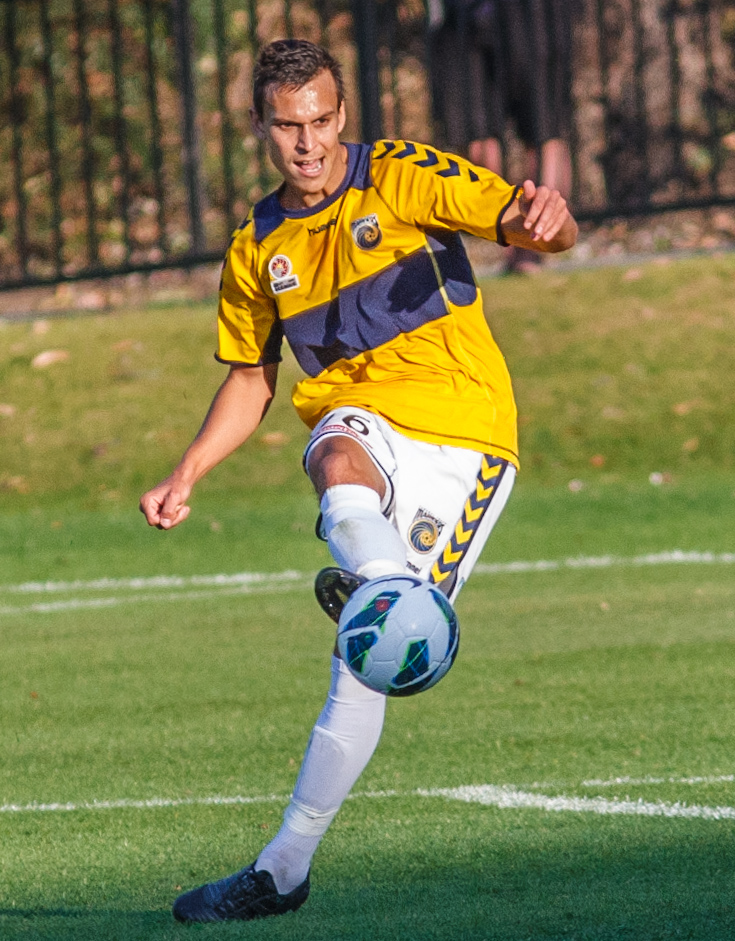 Trent Sainsbury playing in a pre-season game between the Central Coast Mariners and Melbourne Victory on 16/09/2012.